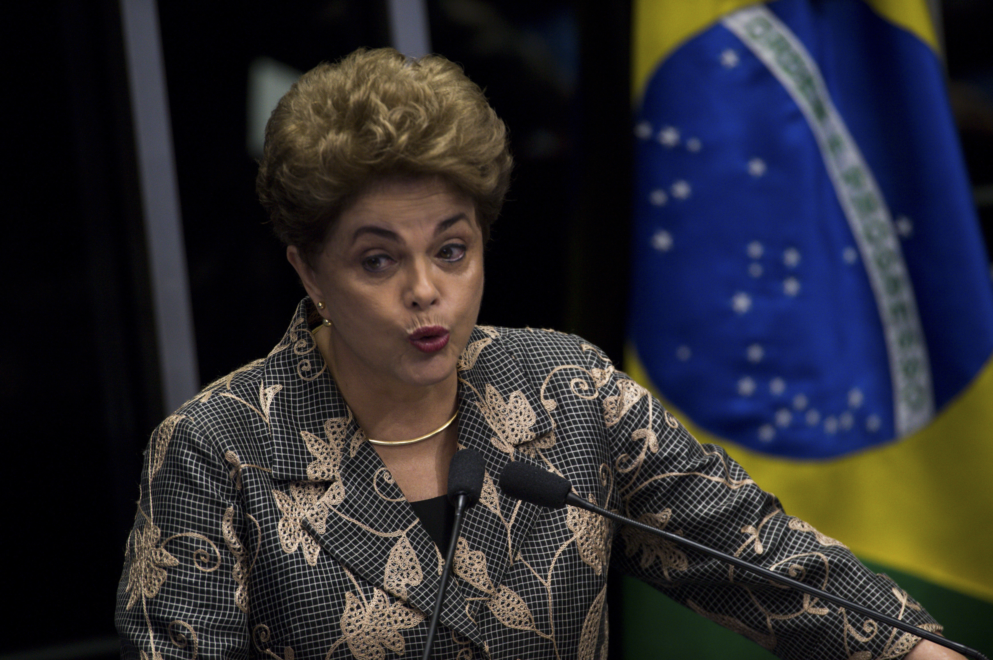 Brasília - A presidenta afastada Dilma Rousseff faz sua defesa diante dos Senadores durante sessão de julgamento do impeachment. ( Marcelo Camargo/Agência Brasil)